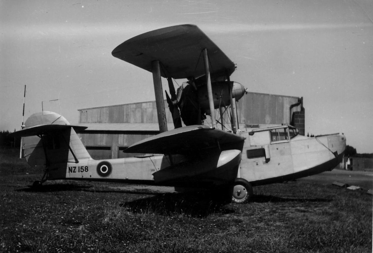 One of the RNZAF's last Supermarine Walrus, NZ158, formerly X9512, arrived in Auckland on 30 September 1944 for the Seaplane Training Flight, which operated her from Hobsonville until August 1945 when, with only 108 hours at the end of the war, NZ158 was stored. On 29 October 1947 sold to C. F. Cook, who resold to R.H. Exton, 03 December 1947. Registered as ZK-AMJ but flown in RNZAF colours NZ158 was stored at Mangere before being reduced to spares for New Guinea's Amphibian Airways in 1949.